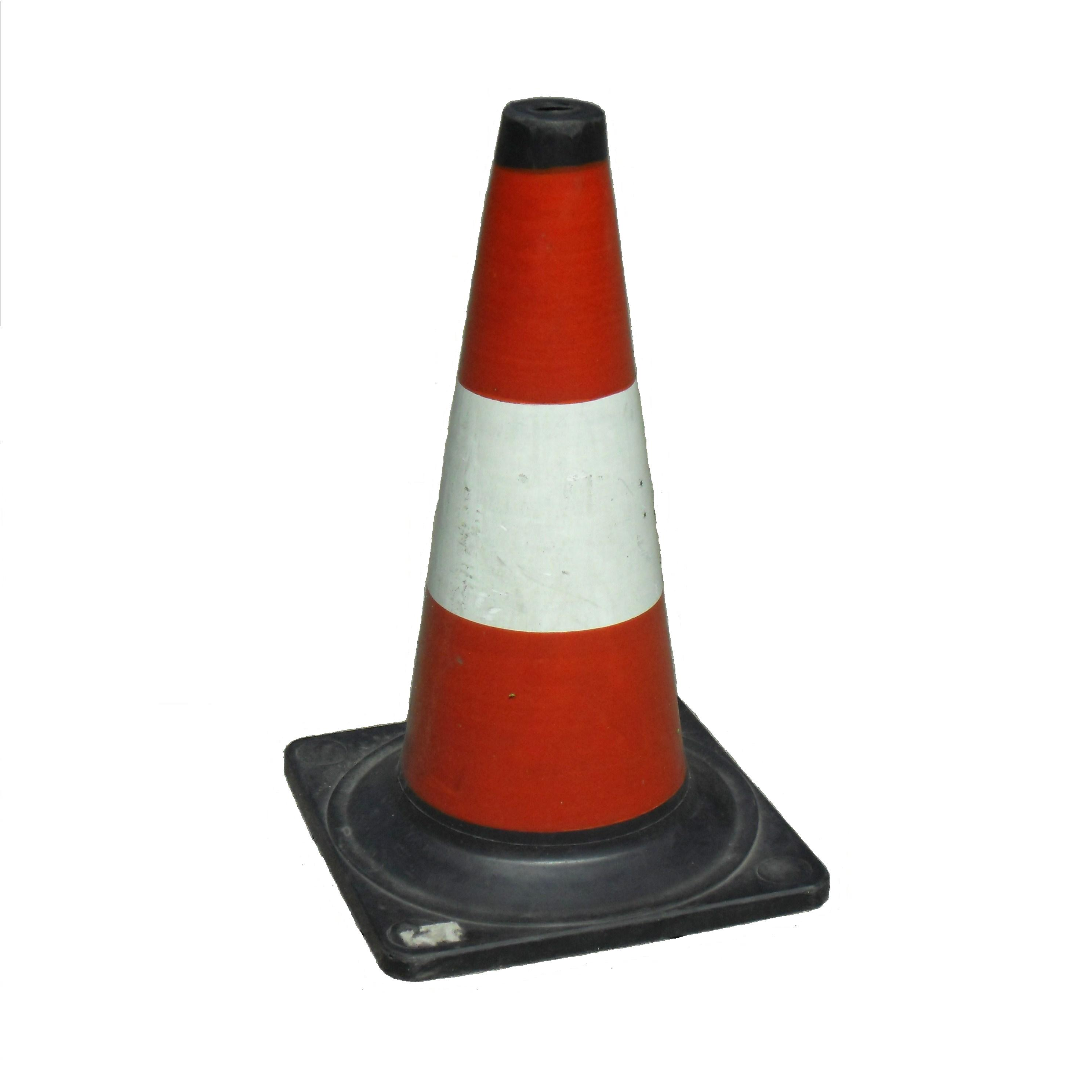 Kraftwerk's 1970 album cover alike.